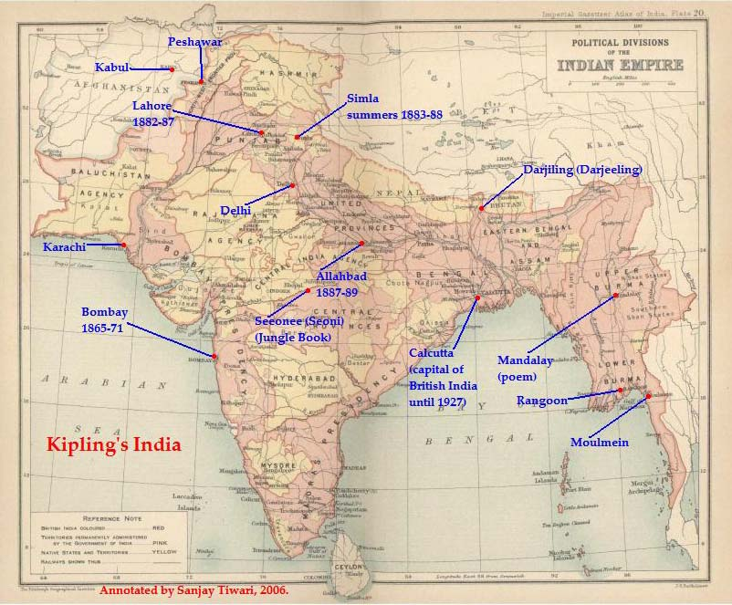 Summary This is a low-resolution (40% of original) scanned image of the map, "Politial Divisions of the Indian Empire" from the Imperial Gazeteer of India (volume 26, Atlas), published by the Oxford University Press, 1909. The map image was scanned and then annotated by me (Sanjay Tiwari 18:24, 30 September 2006 (UTC))